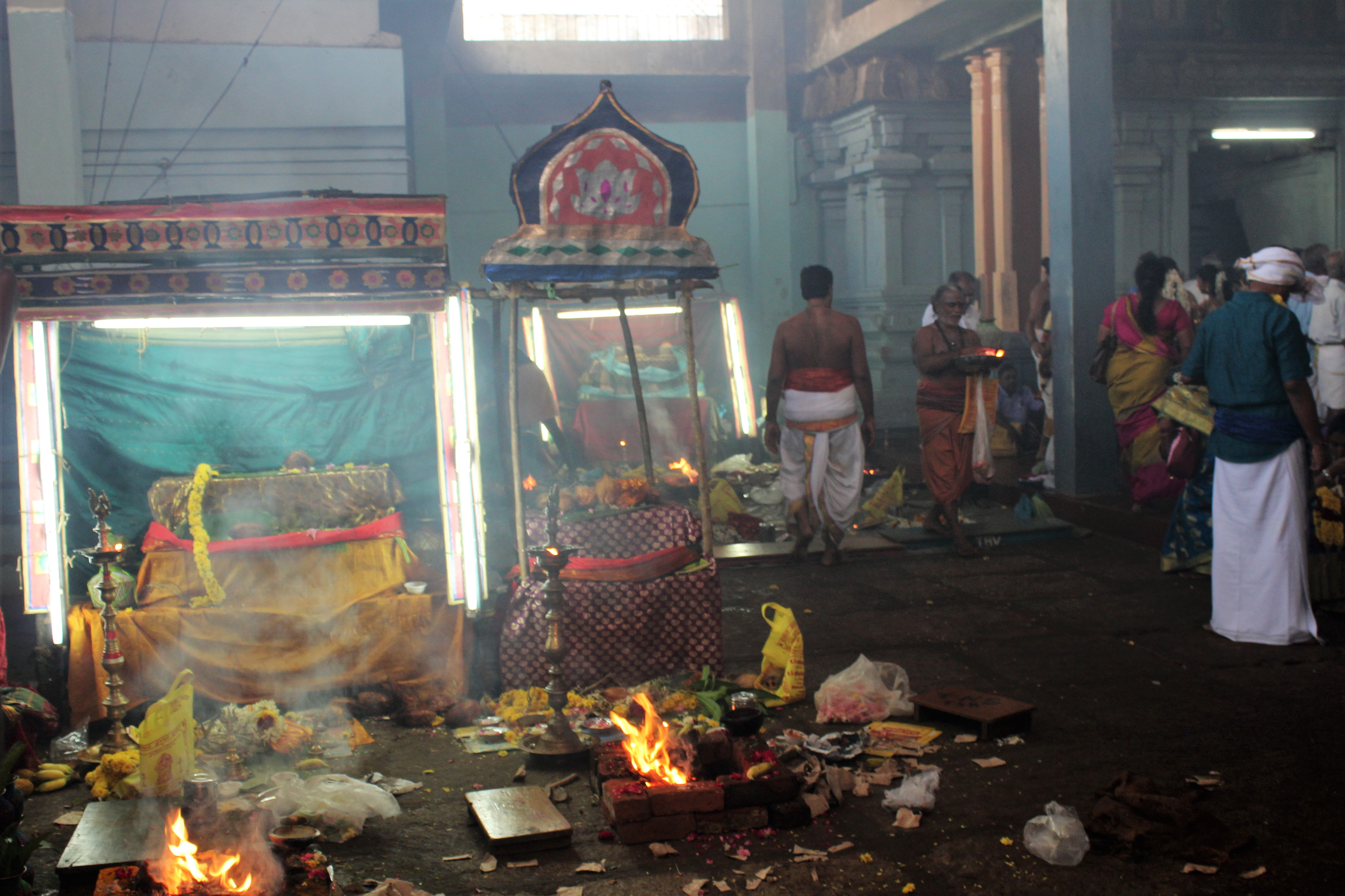 Amirthakadeswarar temple Thirukadayur